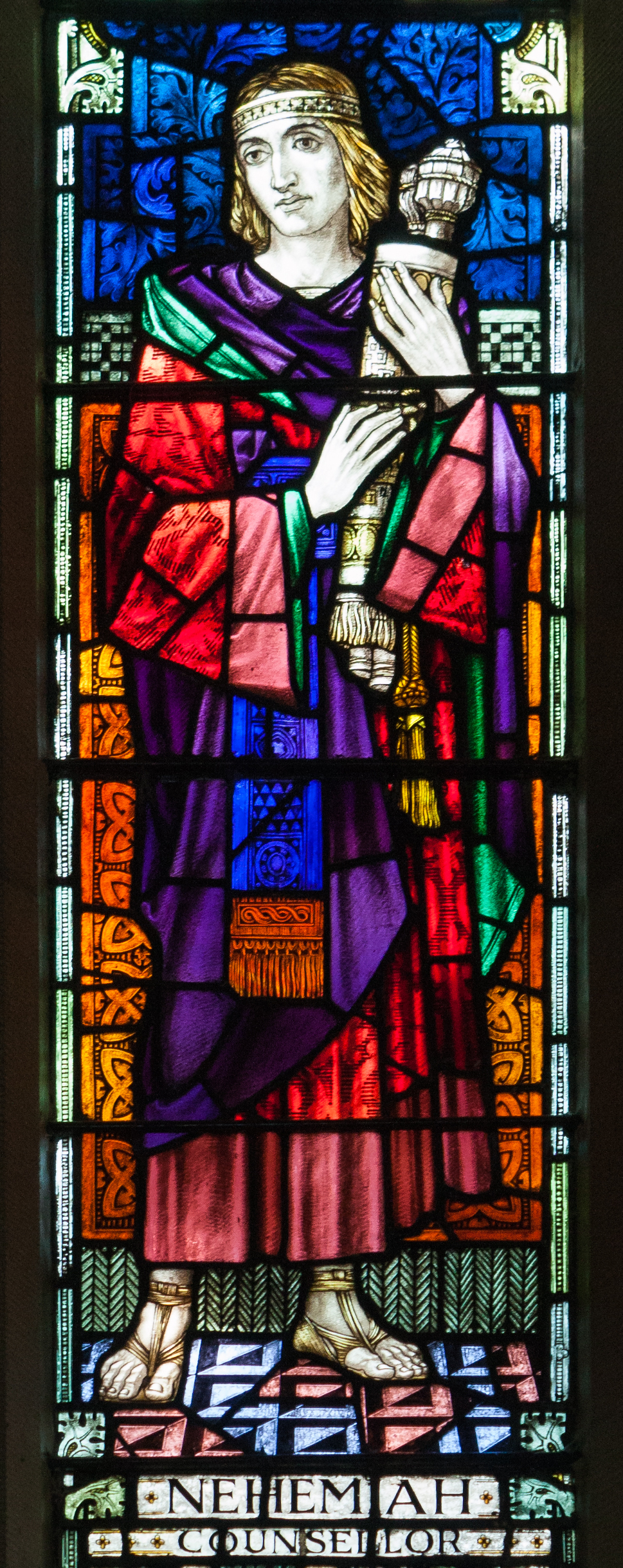 Third light (counting from left to right) stained glass window in the south wall of the south transept, depicting Nehemiah as “counsellor”. Signed by Joshua Clarke & Sons, Dublin.